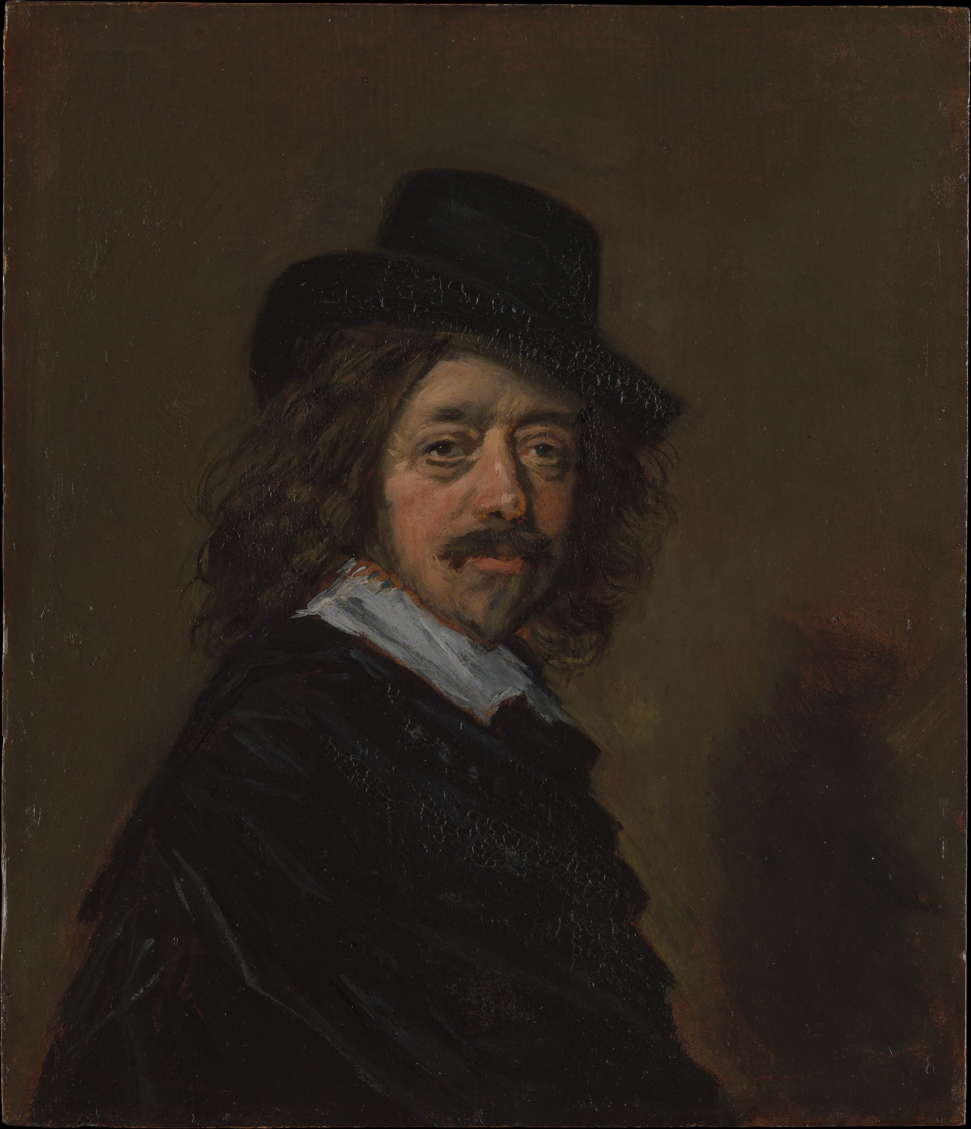 This painting was thought to be a self-portrait until 1935. A better copy of the fifteen copies of the lost Self-portrait is in the Indianapolis Museum of Art. The version in the MMA is less dark and the lips are slightly opened.